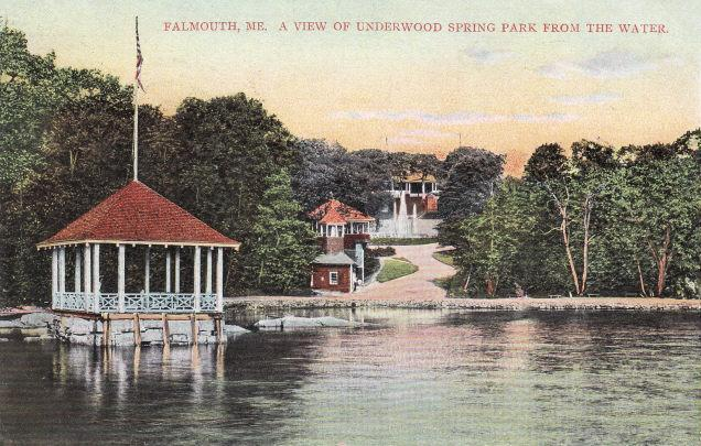 A view of Underwood Spring Park from the water, Falmouth, Maine